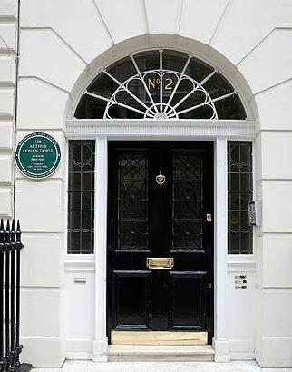 Arthur Conan Doyle opened his practice here in 1891 [1]